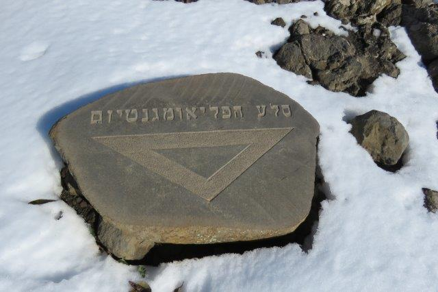 Paleomagnetism Rock